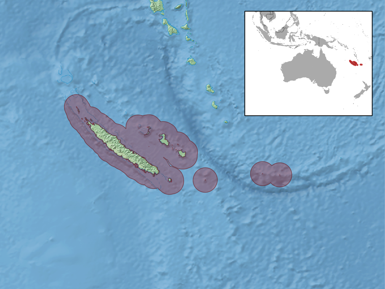 geographic distribution of Laticauda saintgironsi